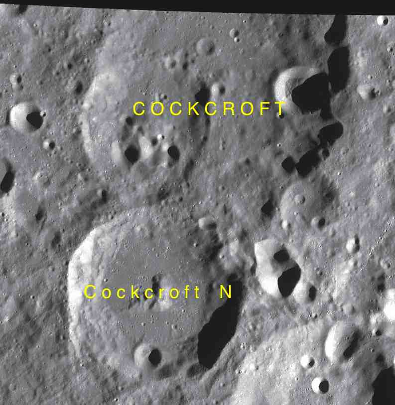 Part of the chart LAC-51 used for the presentation